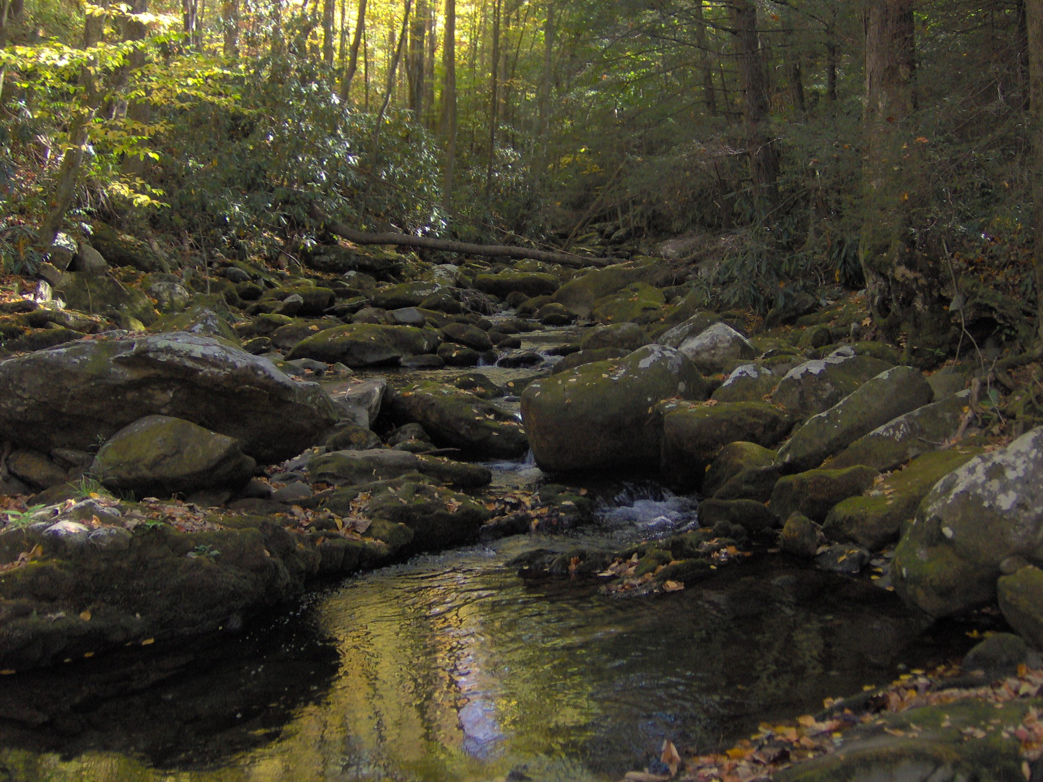 Thunderhead Prong in the Great Smoky Mountains of East Tennessee, located in the Southeastern United States. Thunderhead Prong drains the upper western section of the Tremont region, and is part of the Little River watershed.